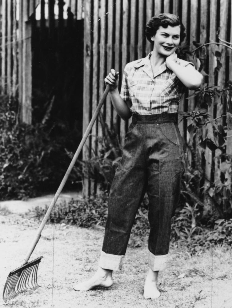 Young woman modelling a pair of denim jeans and a checked shirt, 1952 Woman modelling a pair of denim jeans with the cuffs turned up (or a contrasting trim on the cuffs?) and a short-sleeved, checked shirt, for an advertisement for T. C. Beirne's department store. The model is barefoot and poses with a rake in the garden. Her hair is short, and styled with a few soft curls.